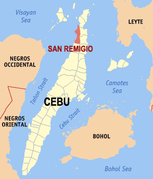 Map of Cebu showing the location of San Remigio